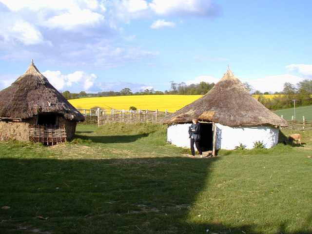 Butser Ancient Farm